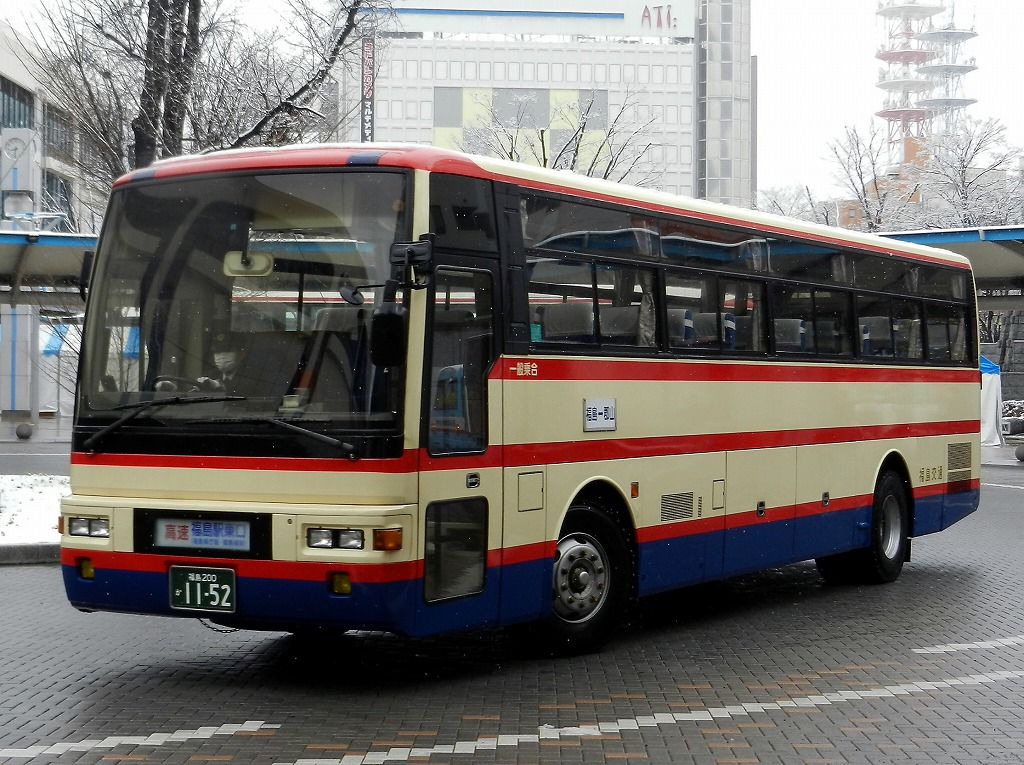 Fukushima kotsu Isuzu Super Cruiser (U-LV771R,FHI 7HD body) Highwaybus "Fukushima-Koriyama"